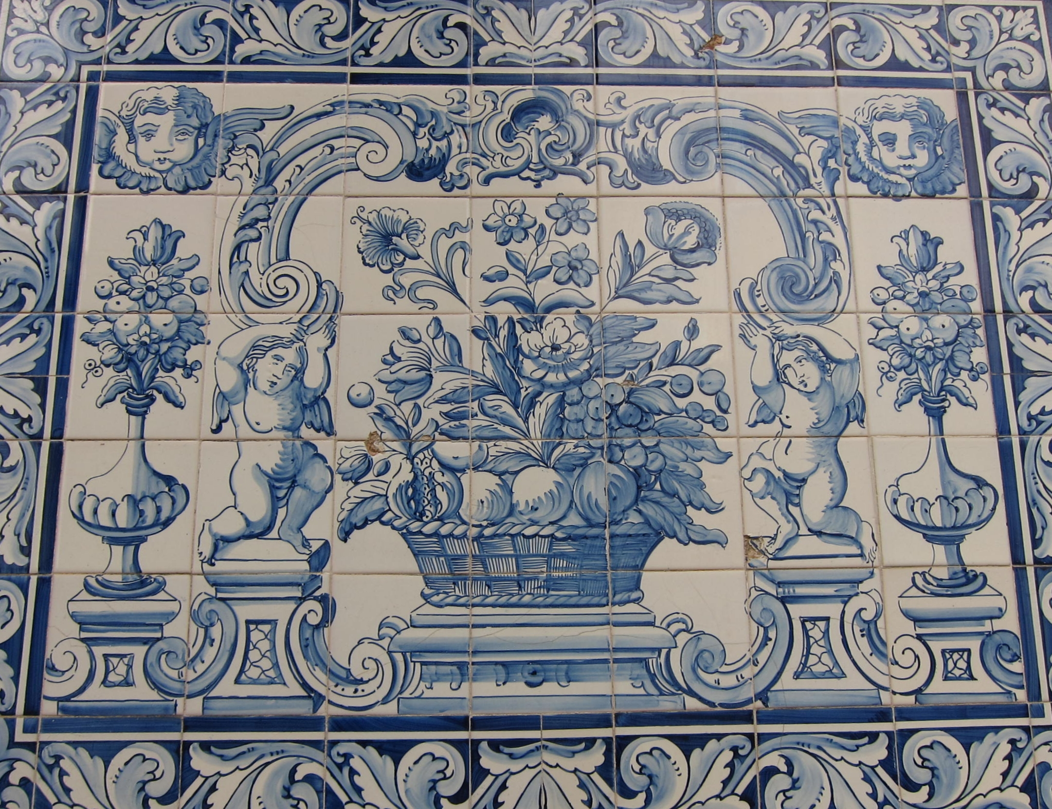 Azulejos, possibly second half of the 18th century, decorating the gate to the Quinta do Barão in Carcavelos.